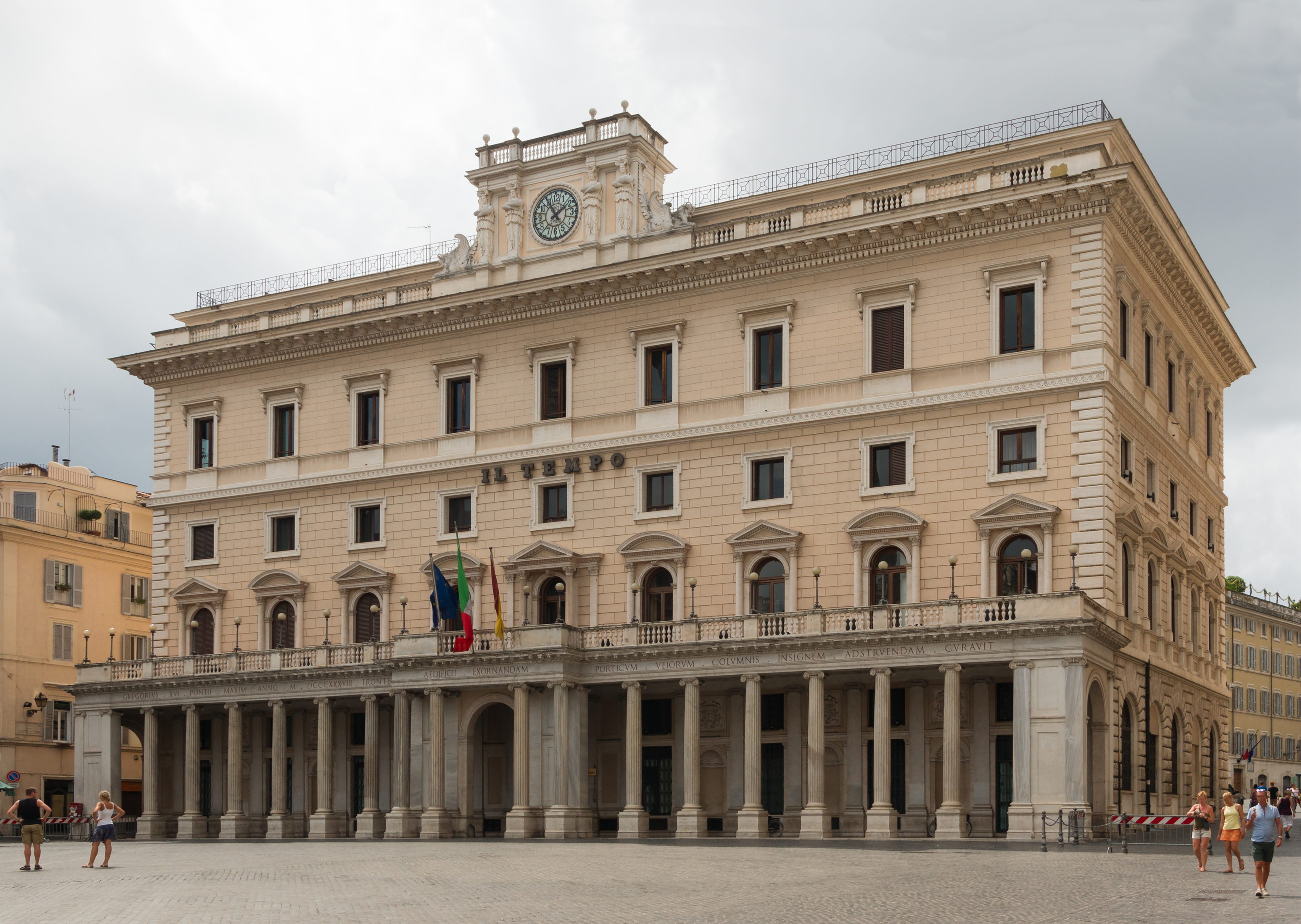 Wedekind Palace, seat of the newspaper "Il Tempo", Rome, Italy.